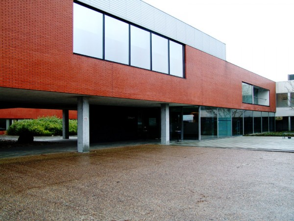 Building B of the Kortrijk University KULCK